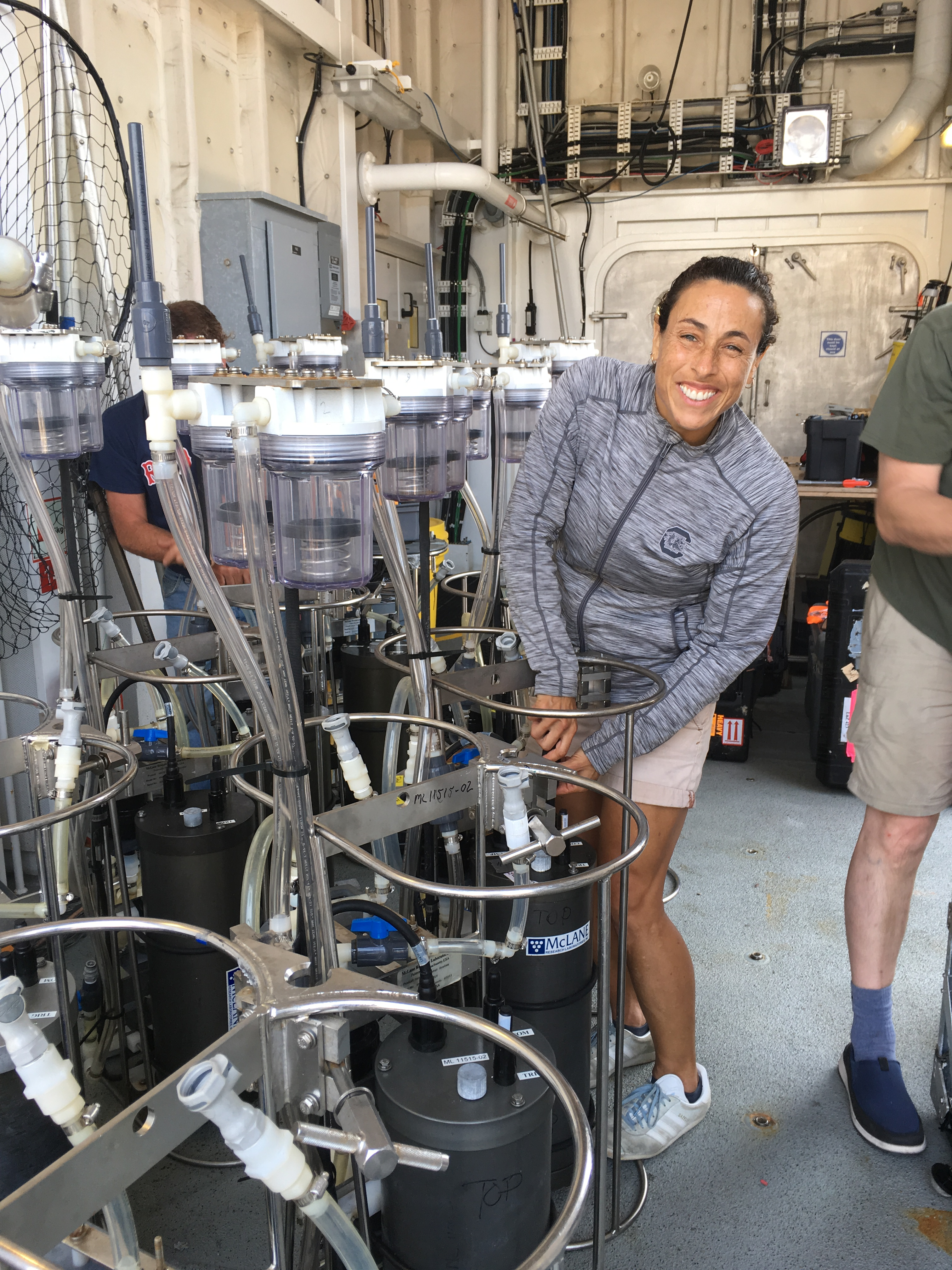 Dr. Claudia Benitez-Nelson out in the field.